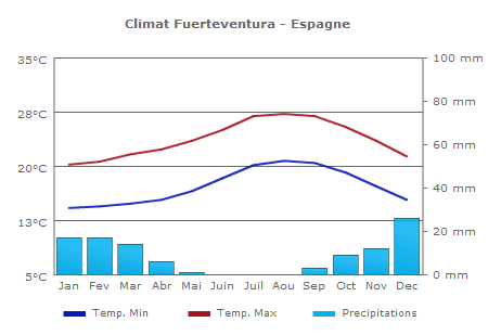 Climate Fuerteventura - Canary Islands